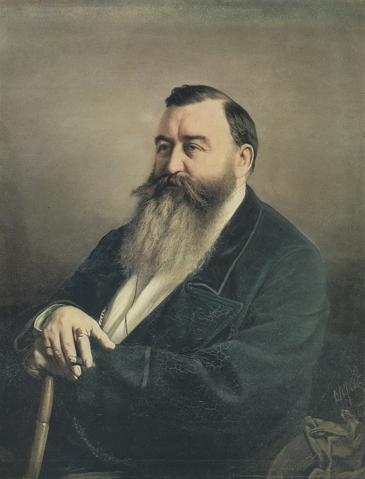 Портрет Ф.Ф. Резанова